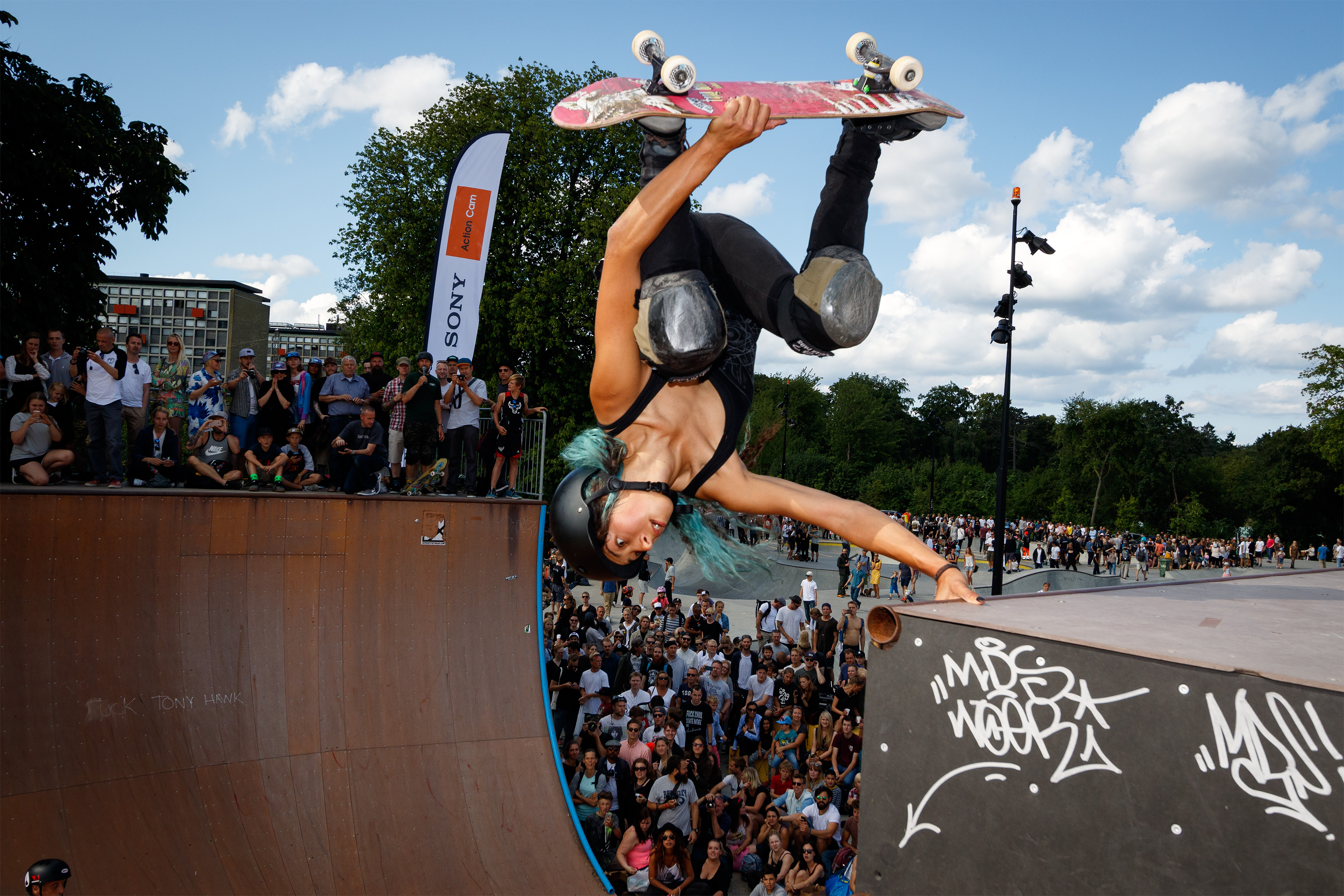 Lizzie Armanto with the Birdhouse Skateboards skateboarding team in Fælledparken Skatepark, Copenhagen, 2015.